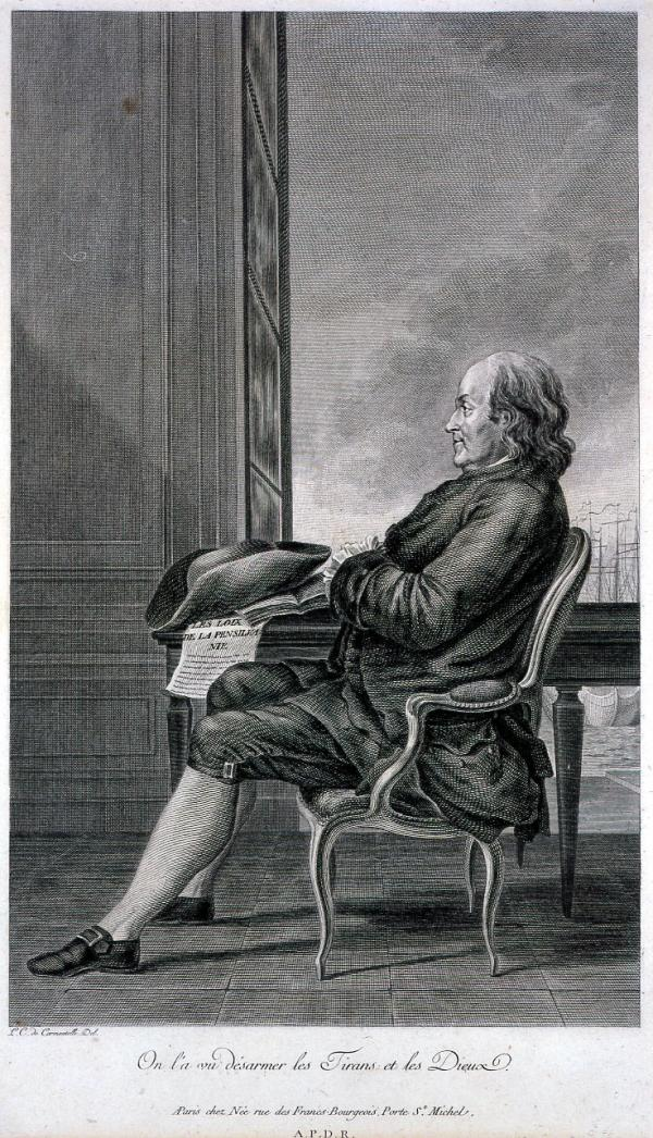 "Benjamin Franklin". Line engraving by François Denis Née after a portrait by Carmontelle. Private collection. Inscription: "On l'a vu désarmer les Tirans et les Dieux." ("Tyrants and Gods are known to have yielded to him.")